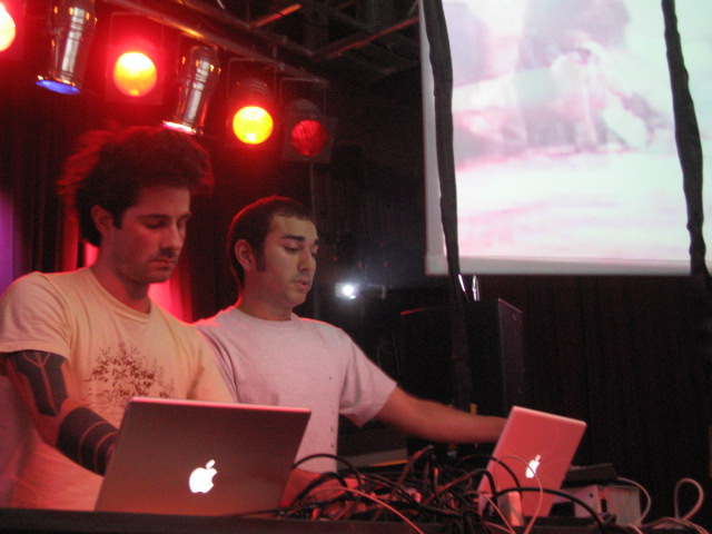 U.S. electronic music group Telefon Tel Aviv performing live at Decibel festival, Seattle/USA, September 2006 [1]